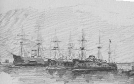 Toulon, Navy Ships by Henri du Couëdic